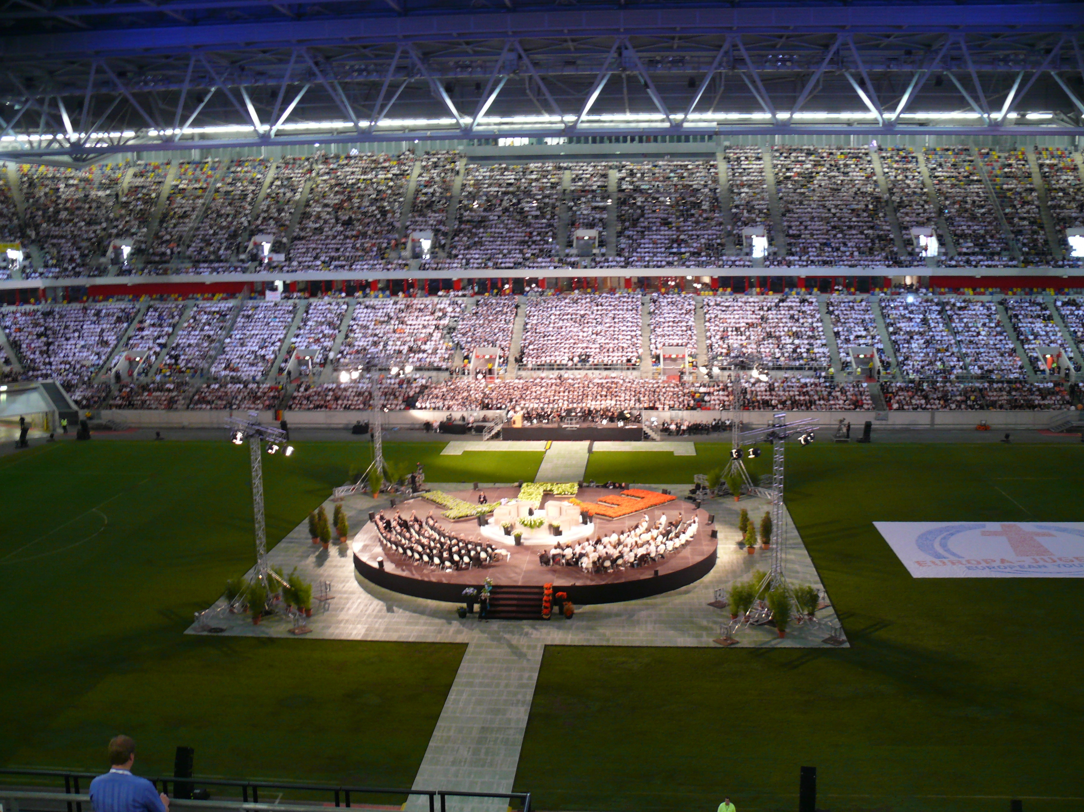 View into the LTU-Arena on the divine service of the european youth day 2009 of the new apostolic church